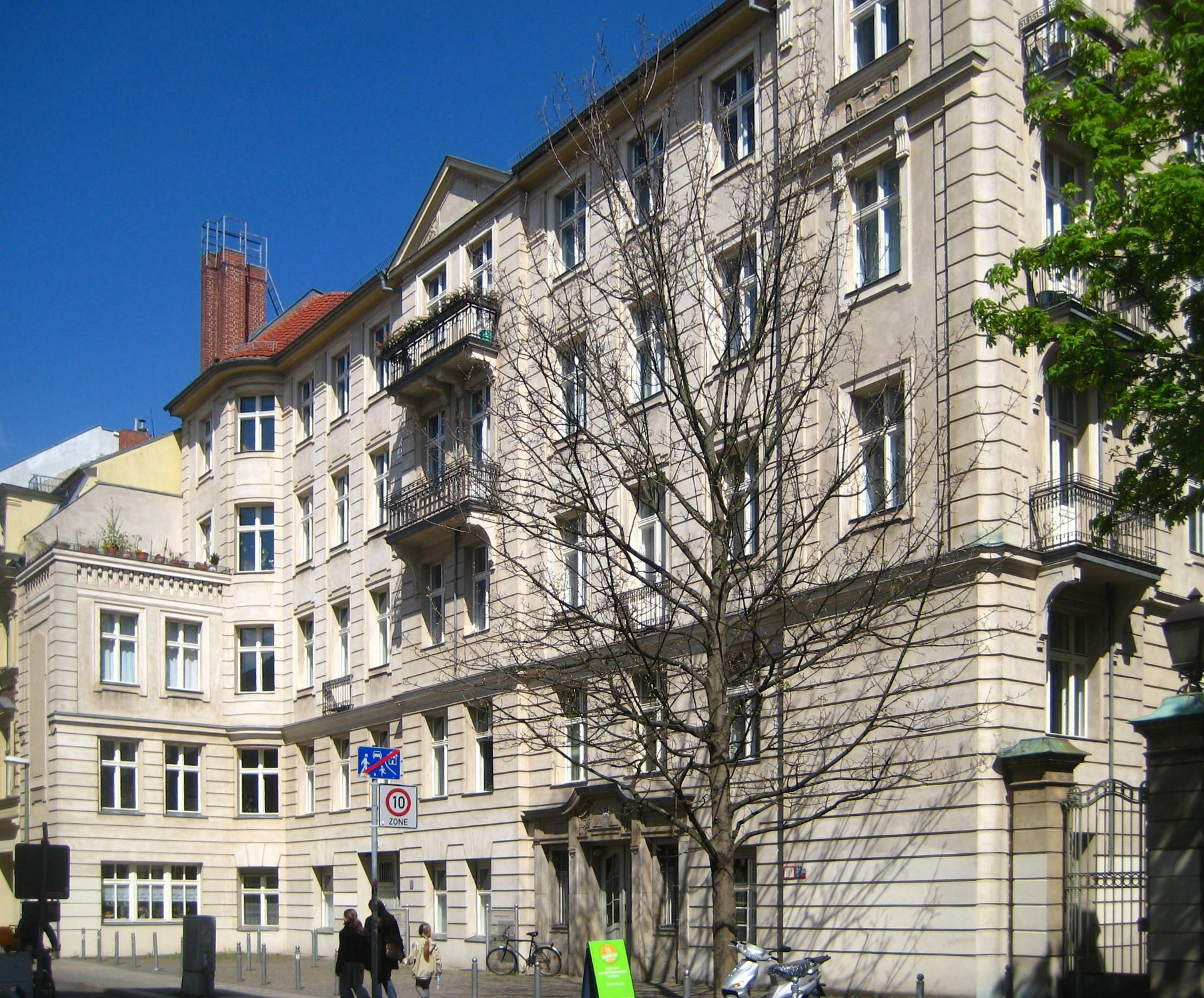 Residential building Große Hamburger Straße No. 30-31 in Berlin-Mitte. It was built from 1902 to 1905 together with the house No. 29 for the Sophienkirche congregation. The design was by Gustav Clemens. The whole complex has been designated as a historic landmark.